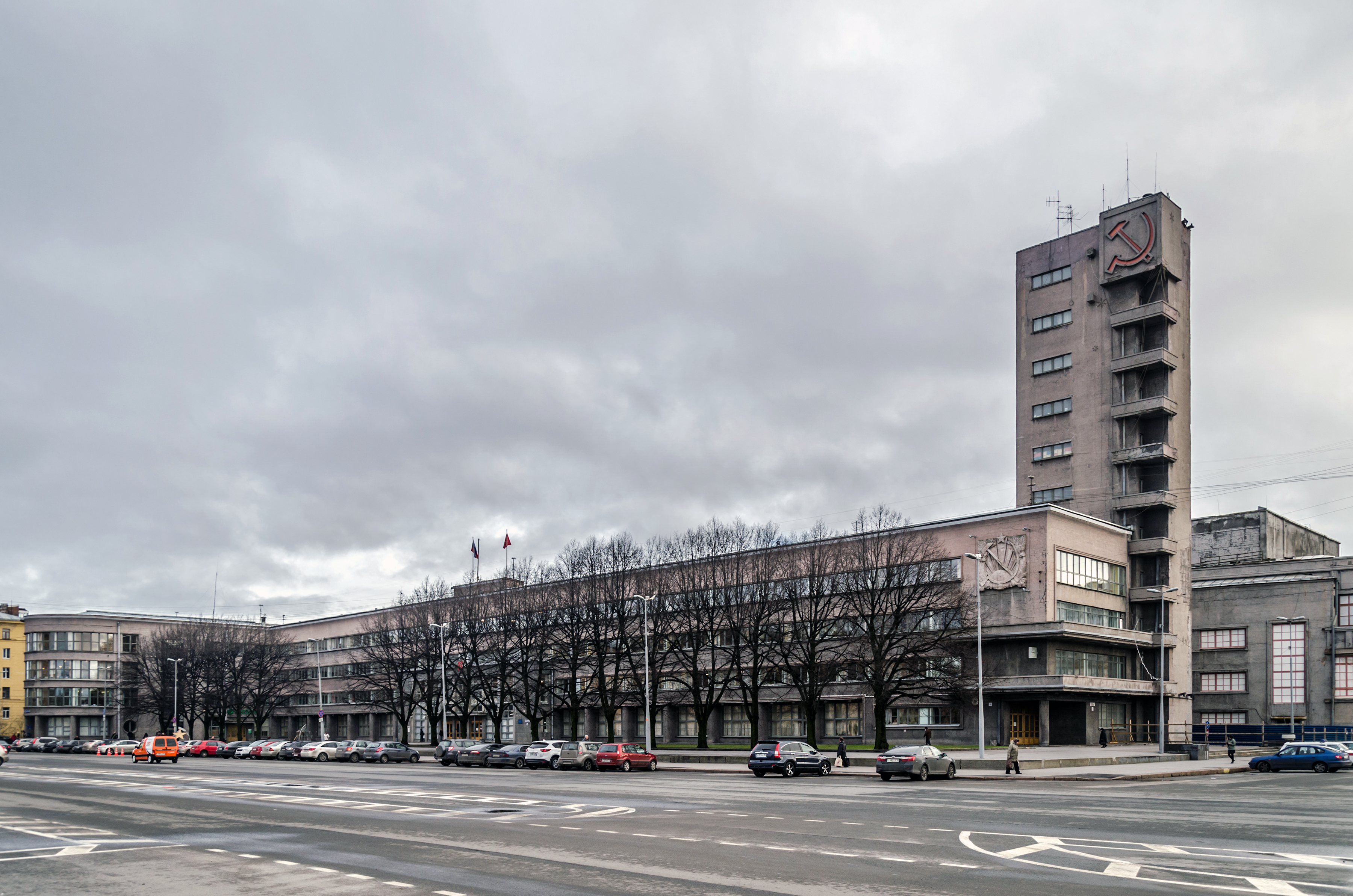 Kirovsky District Council in Saint Petersburg